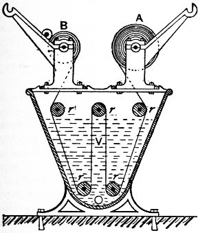 Dye-jigger.